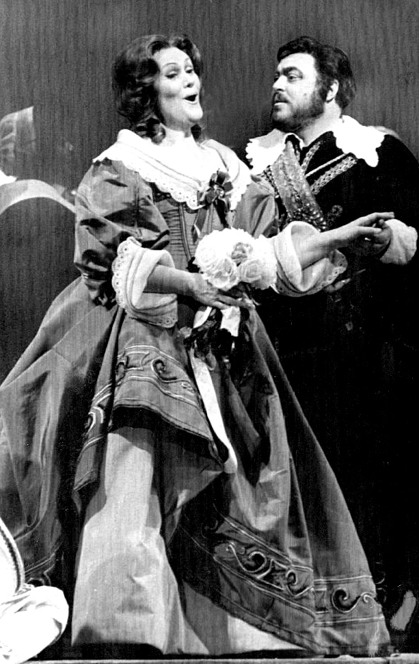 Photo of Luciano Pavarotti and Joan Sutherland in I Puritani